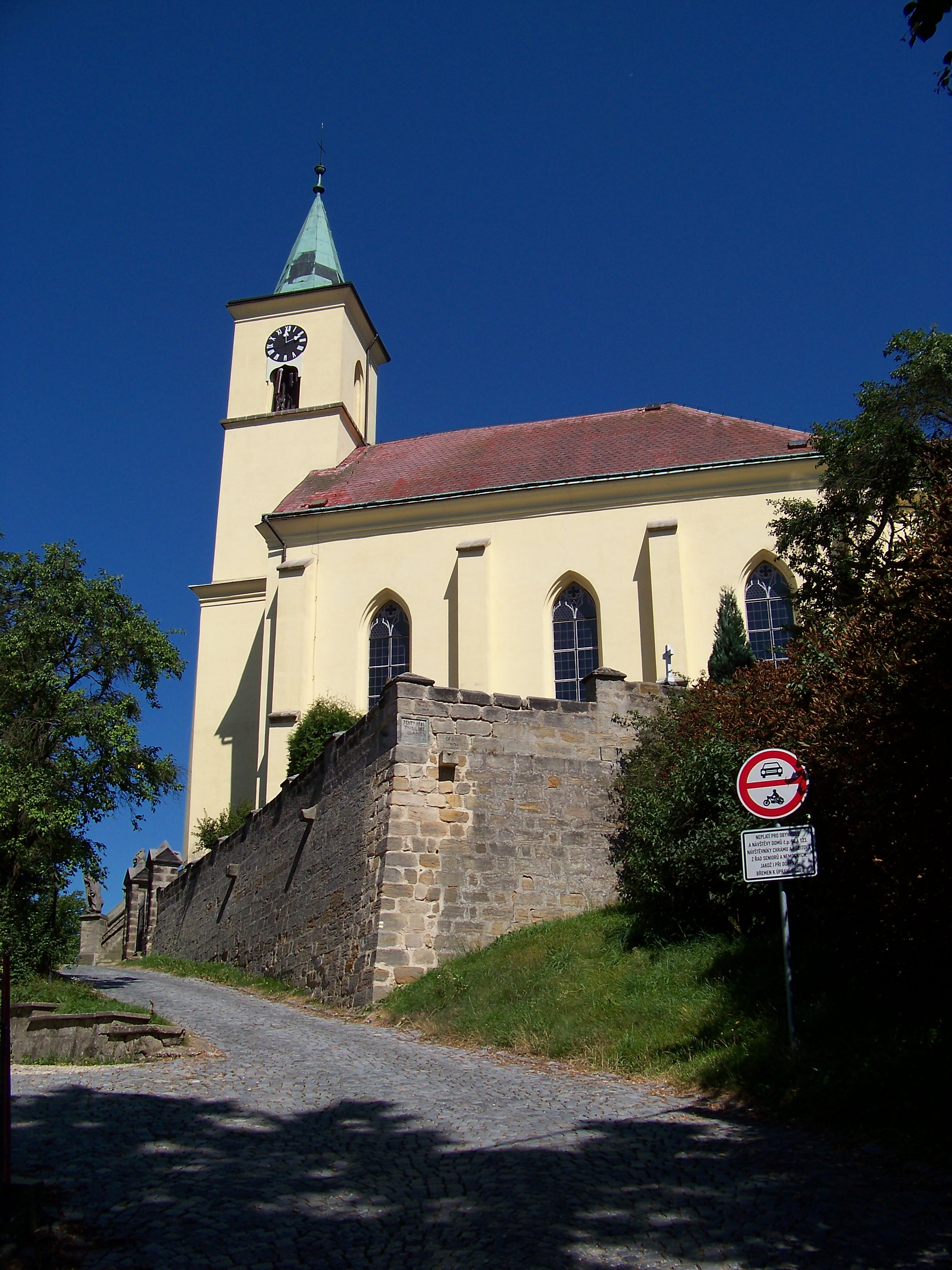 Všeň, Semily District, Liberec Region, the Czech Republic. Saints Philip and James Church. - OpenStreetMap(Info)